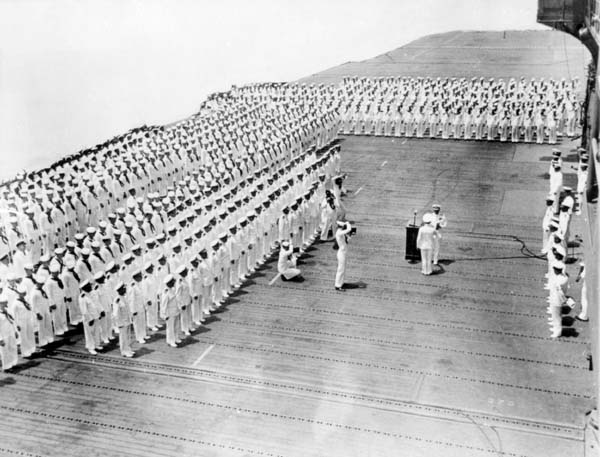 Captain Samuel P. Ginder accepts the Presidential Unit Citation from Fleet Admiral Chester Nimitz on behalf of Enterprise CV-6 and her men, 27 May 1943. Enterprise was the first carrier to receive this decoration, and the only carrier to receive both the Presidential Unit Citation and the Navy Unit Commendation (on 11 July 1946).